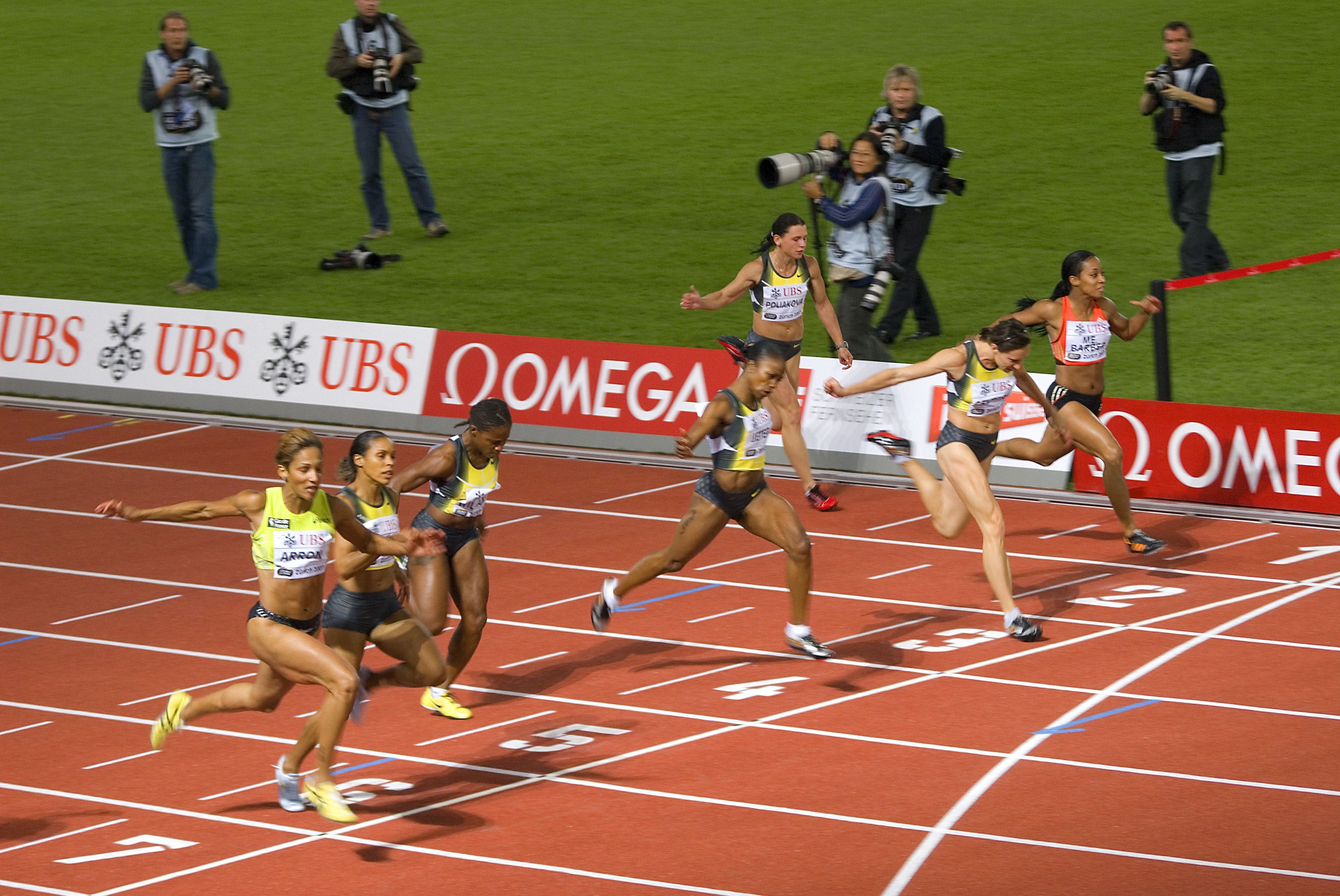 Christine Arron (left) of France wins the women's 100m from Torri Edwards of USA during the Iaaf Weltklasse Golden League meeting on September 7th, 2007 in Zurich, Switzerland.